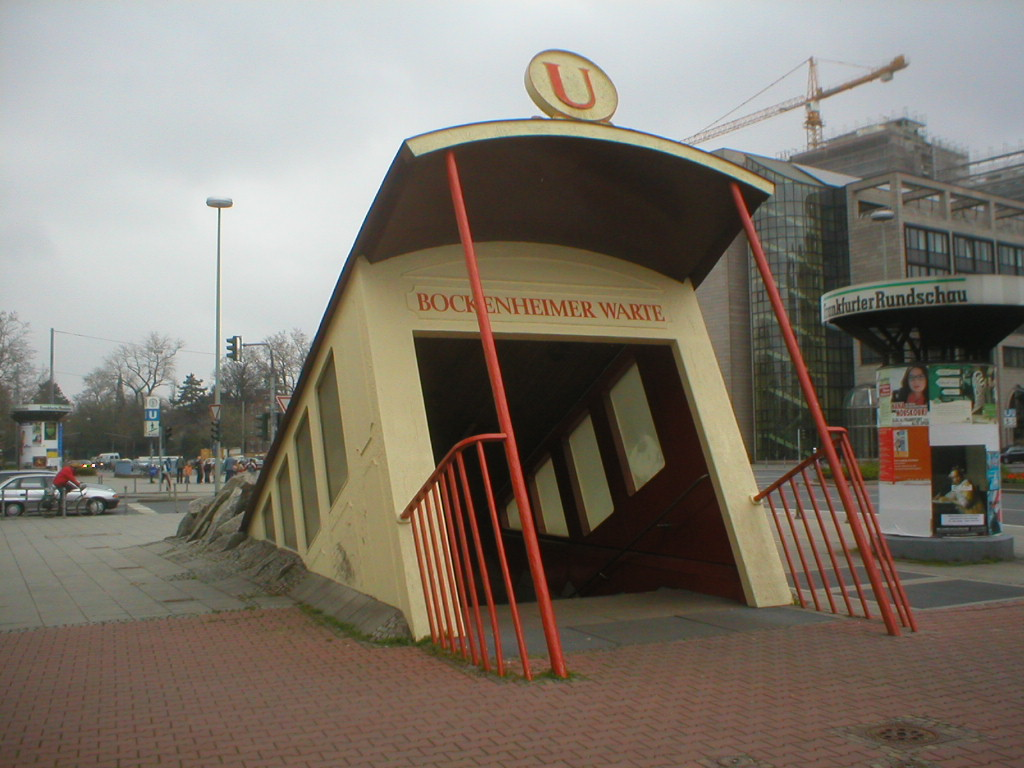 Entrance to Frankfurt's underground station Bockenheimer Warte